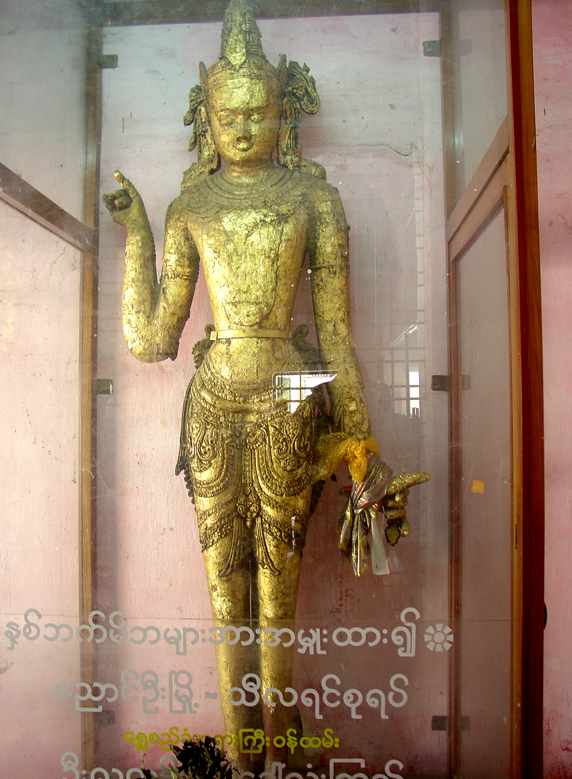 This statue is the earliest known image of Indra in Burma. Originally the king of the Hindu gods, Indra had been incorporated into Buddhism as a protector of Buddha and guardian of the Buddhist law. By appointing him also as king of the Nats, Kyanzittha's theologians created a three-way linkage between Buddhism, Hinduism, and the original native religion of Burma. The life-size statue is made of stone. Its rough surface appearance is due to a multitude of thin flakes of gold foil that have been attached over the years by worshippers.